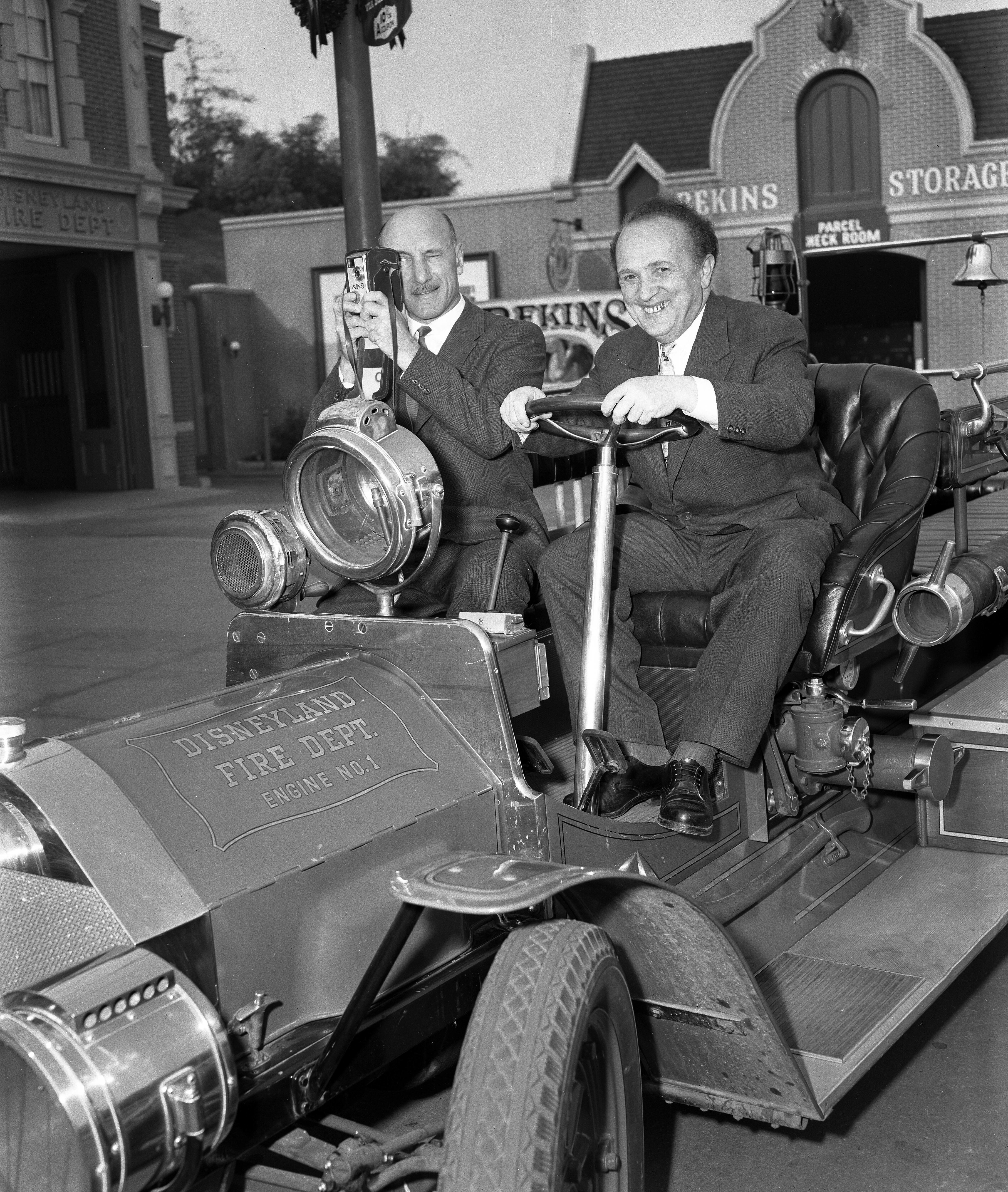 Title: Sergei Gerasimov and Playwright Georgrii Mdivani tour Disneyland in fire engine, 1958 Original caption: "TOURISTS-Producer Sergei Gerasimov, left, and Playwright Georgrii Mdivani, members of a group of Russian movie people who are touring the country, get the feel of an old fire engine at Disneyland."